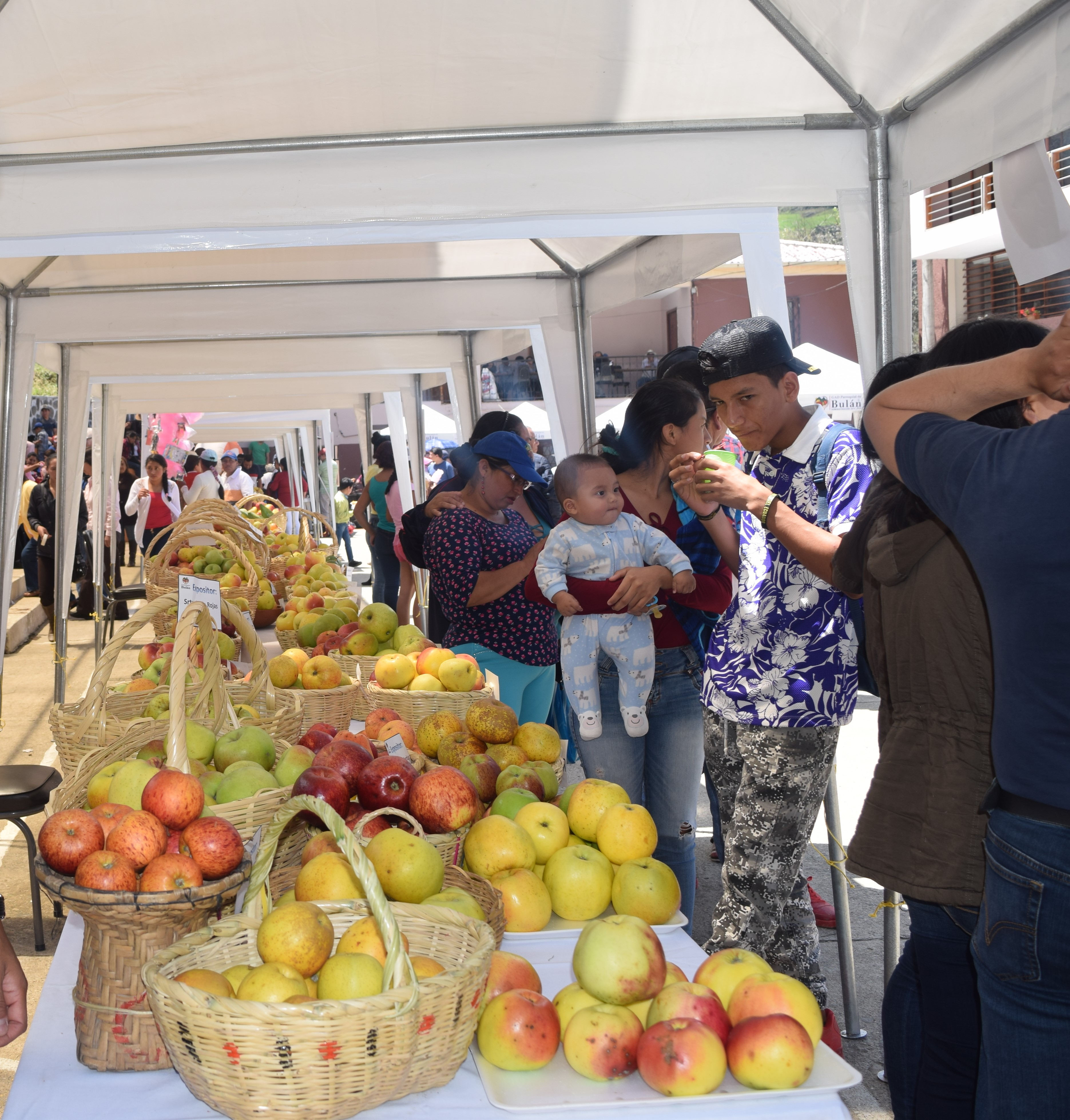 Festival de la manzana en la parroquia Bulán